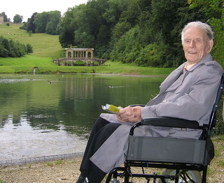 Harry Patch. Photographed at the lake at Prior Park, with the Palladian Bridge in the background, in 2007.